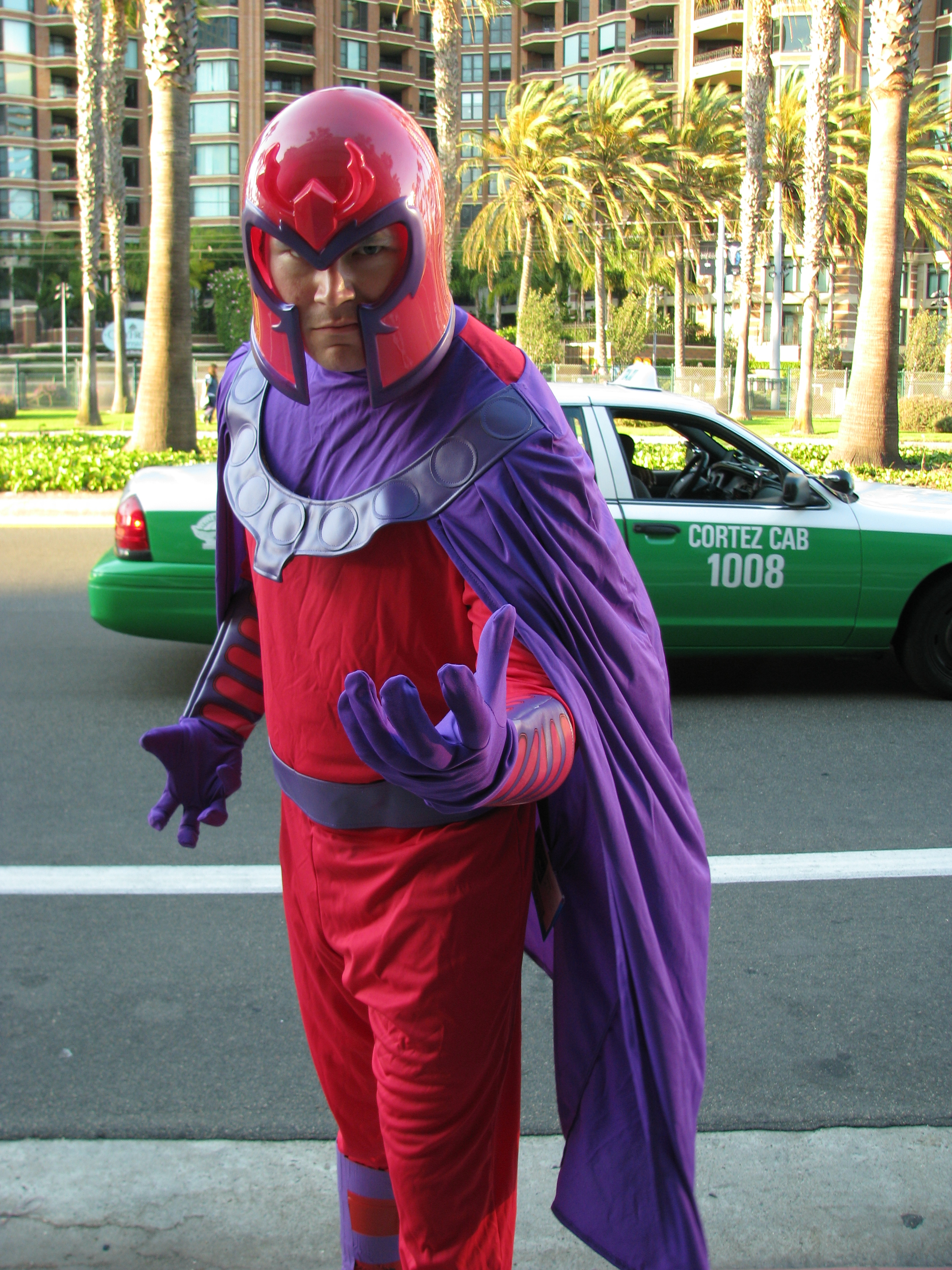 Cosplay of Magneto